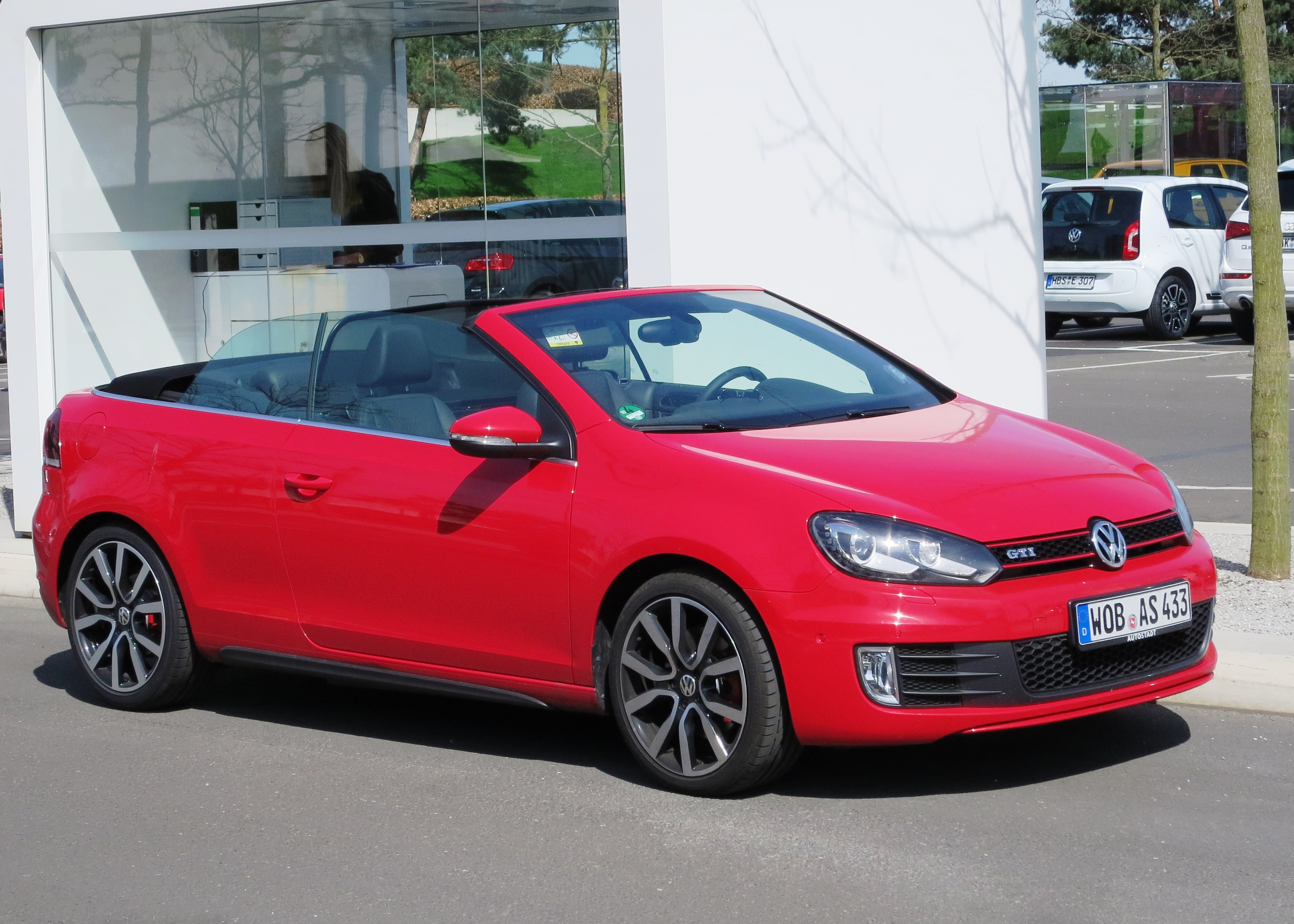 Volkswagen Golf GTi cabriolet (2015)